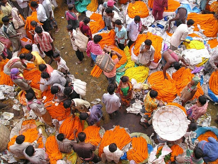 A bird's eye view of the Mullikghat flower market, Kolkata